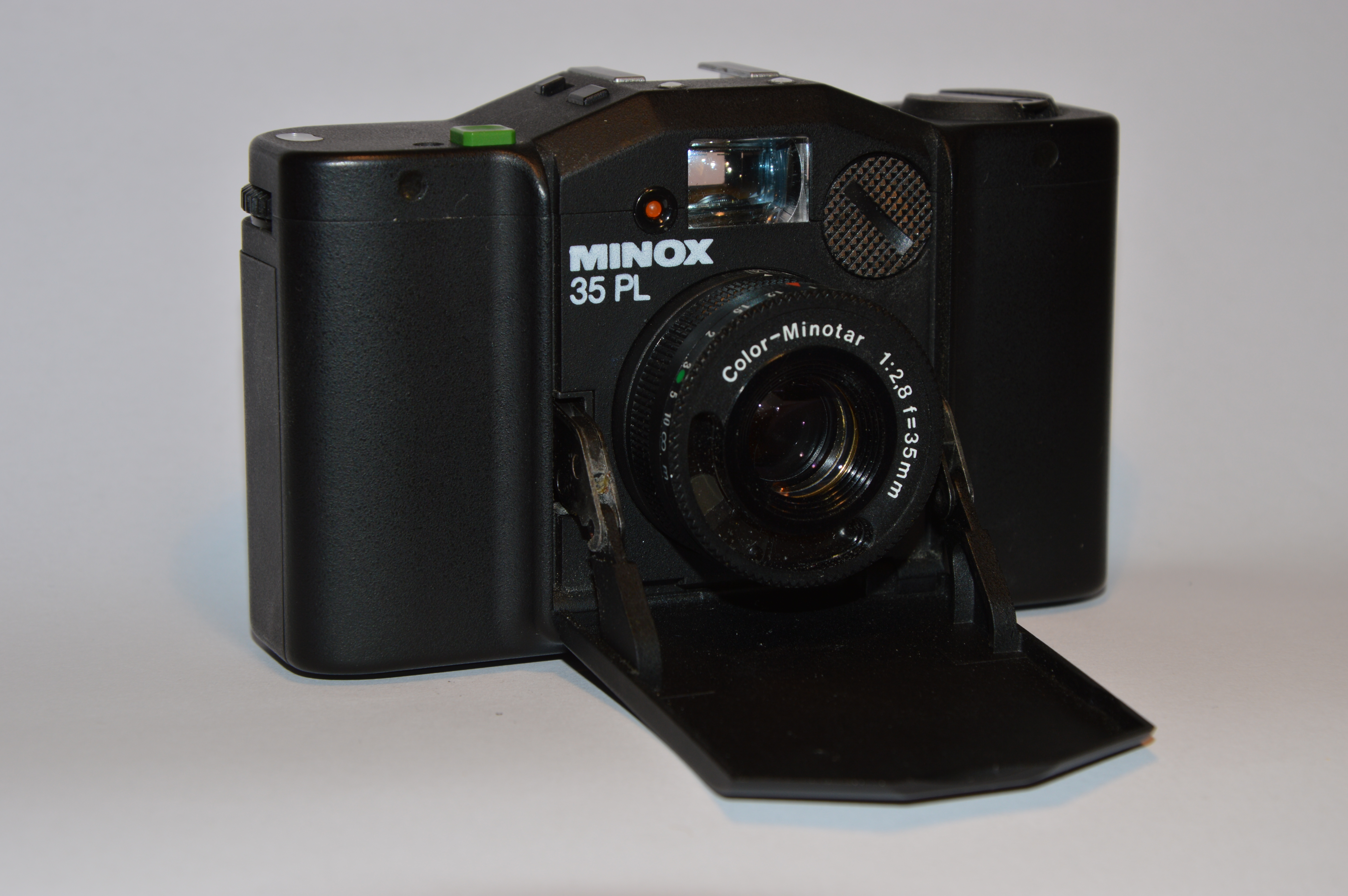 Minox 35 PL miniature camera. Picture size: 24 x 36 mm. For any standard 35 mm cartridge (No. 135). By opening the front cover the lens will automatically extend. Lens: 35 mm Color-Minotar f/2.8. Body: Glass fibre-reinforced Makrolon©.